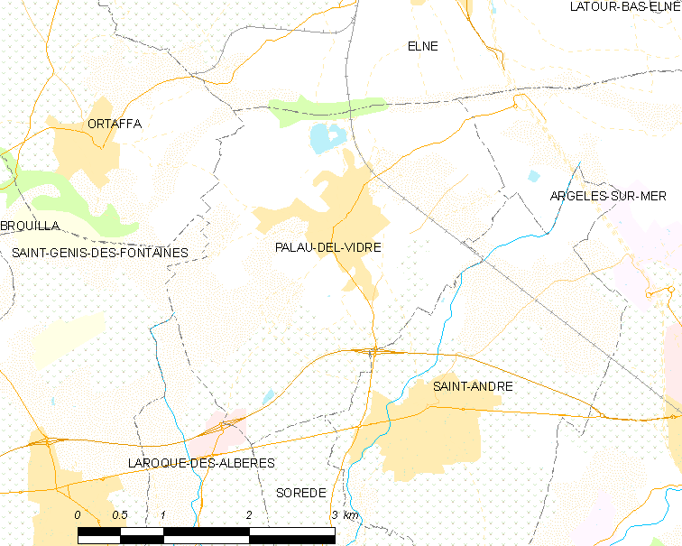 Map of French municipality